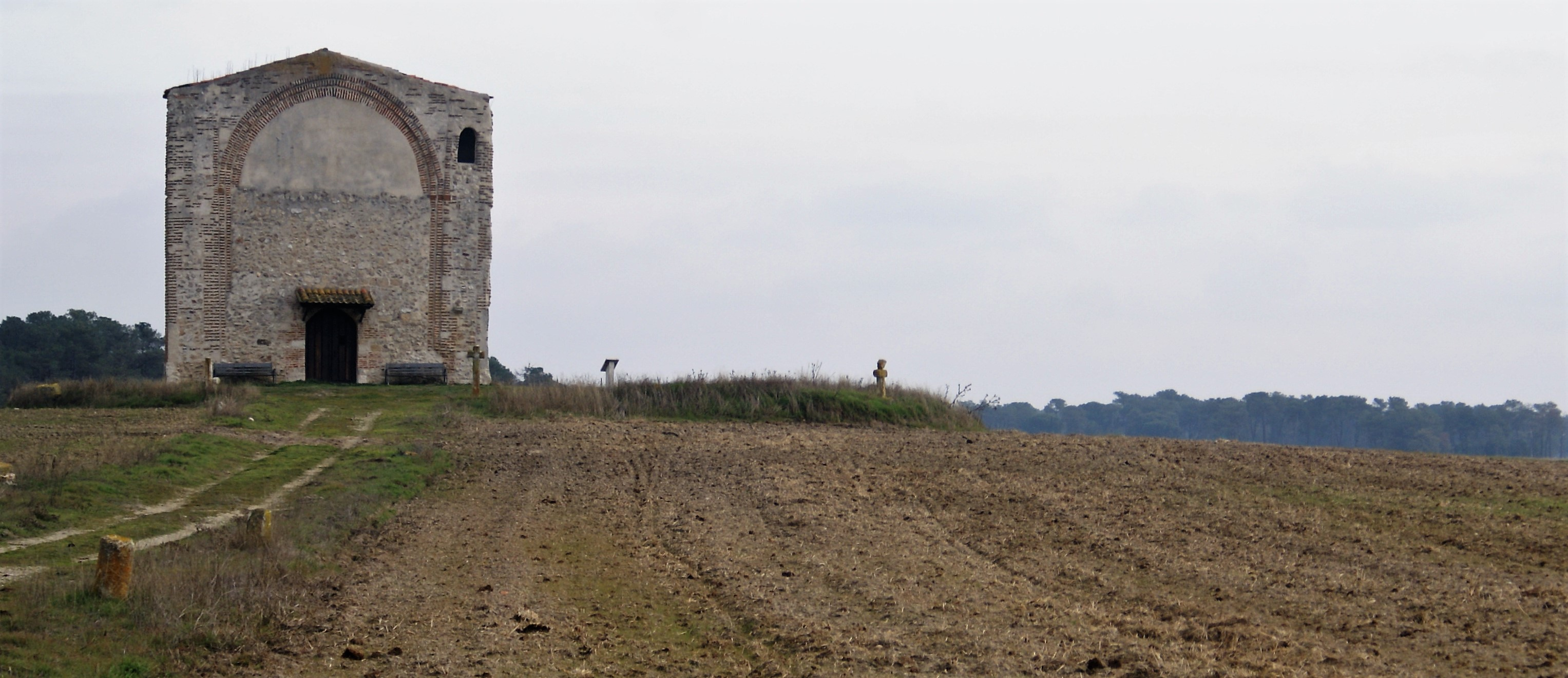 Hermitage of St. Mammes, former church of the village of Pelegudos, Campo de Cuéllar, Segovia, Spain.